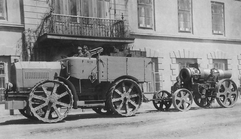 Austro-Daimler M 17 'Goliath' artillery tractor with Skoda M 11 305mm mortar. Photographed outside the Austro-Daimler works in 1917